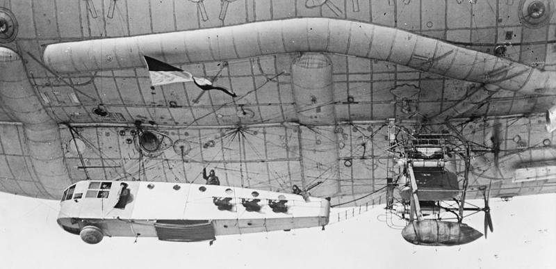 Photography The enclosed car of a non-rigid N. S. (North Sea) Airship seen from below. Note the twin engines behind the car, placed side by side.